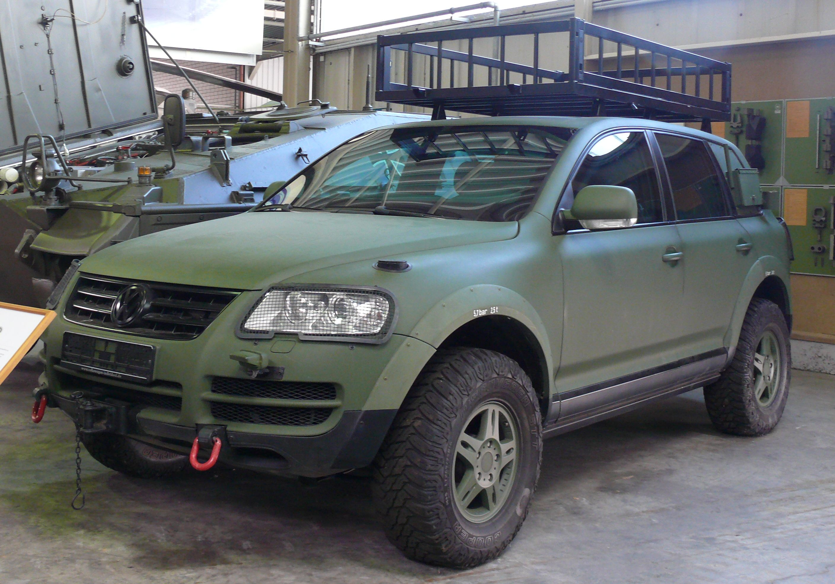 A Prototype of the Volkswagen Touareg Military.